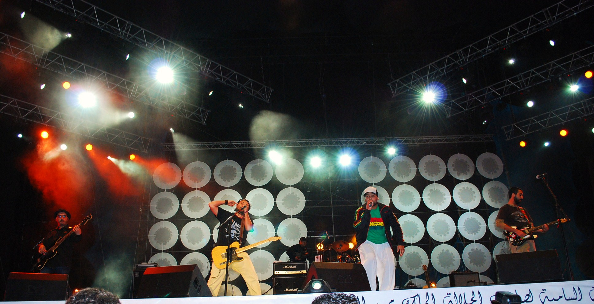 Moroccan Rock Band, Hoba Hoba Spirit at the Dakhla Festival in Morocco.